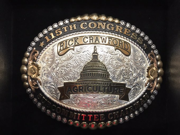 It's an honor to serve on House Agriculture Committee. Thanks to Chairman Conaway for the opportunity and for his leadership.